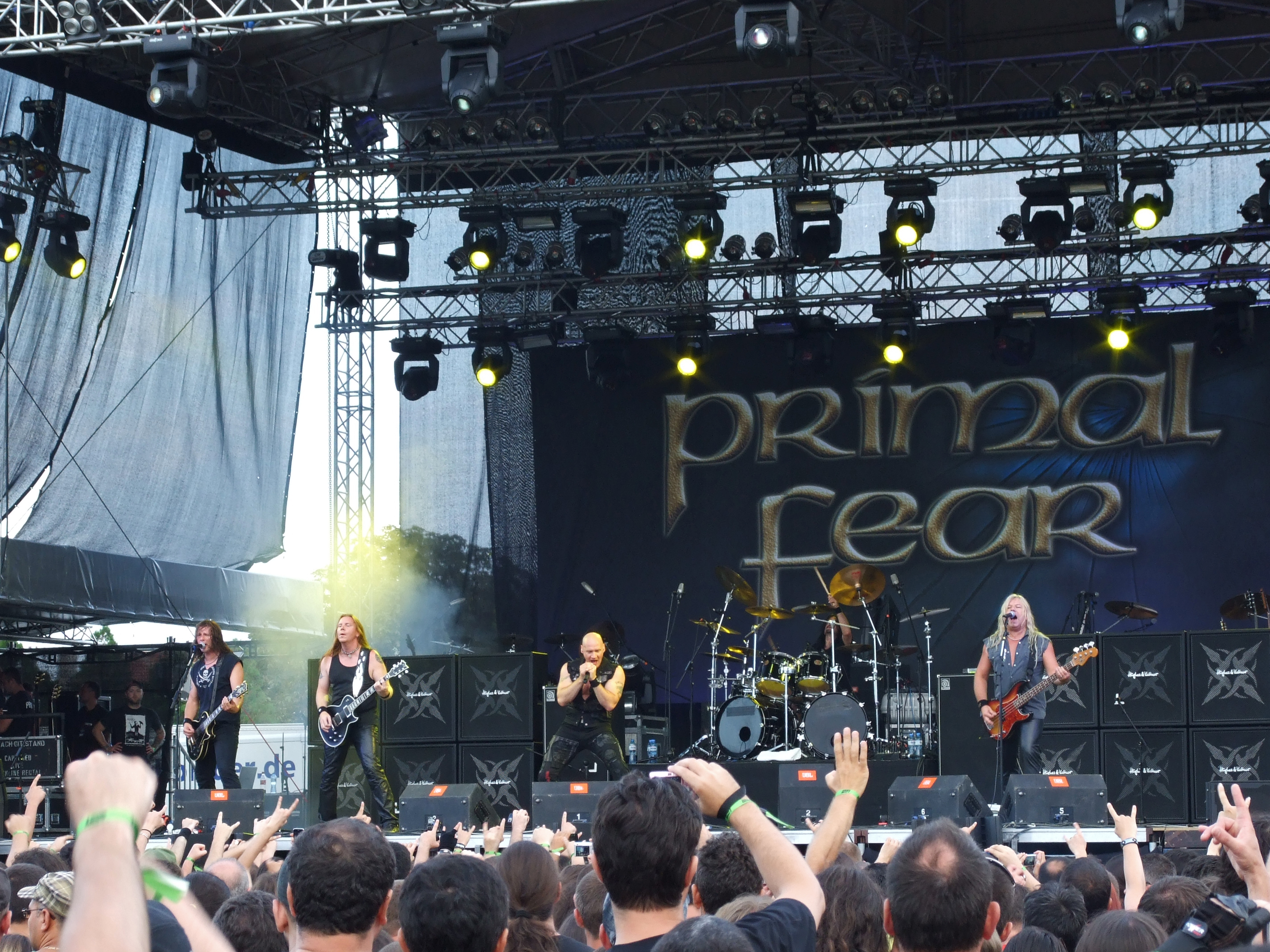 Primal Fear at Kavarna Rock Fest - 25 July 2010, Kavarna, Bulgaria